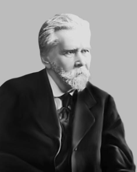 Fedir Vovk (1914)